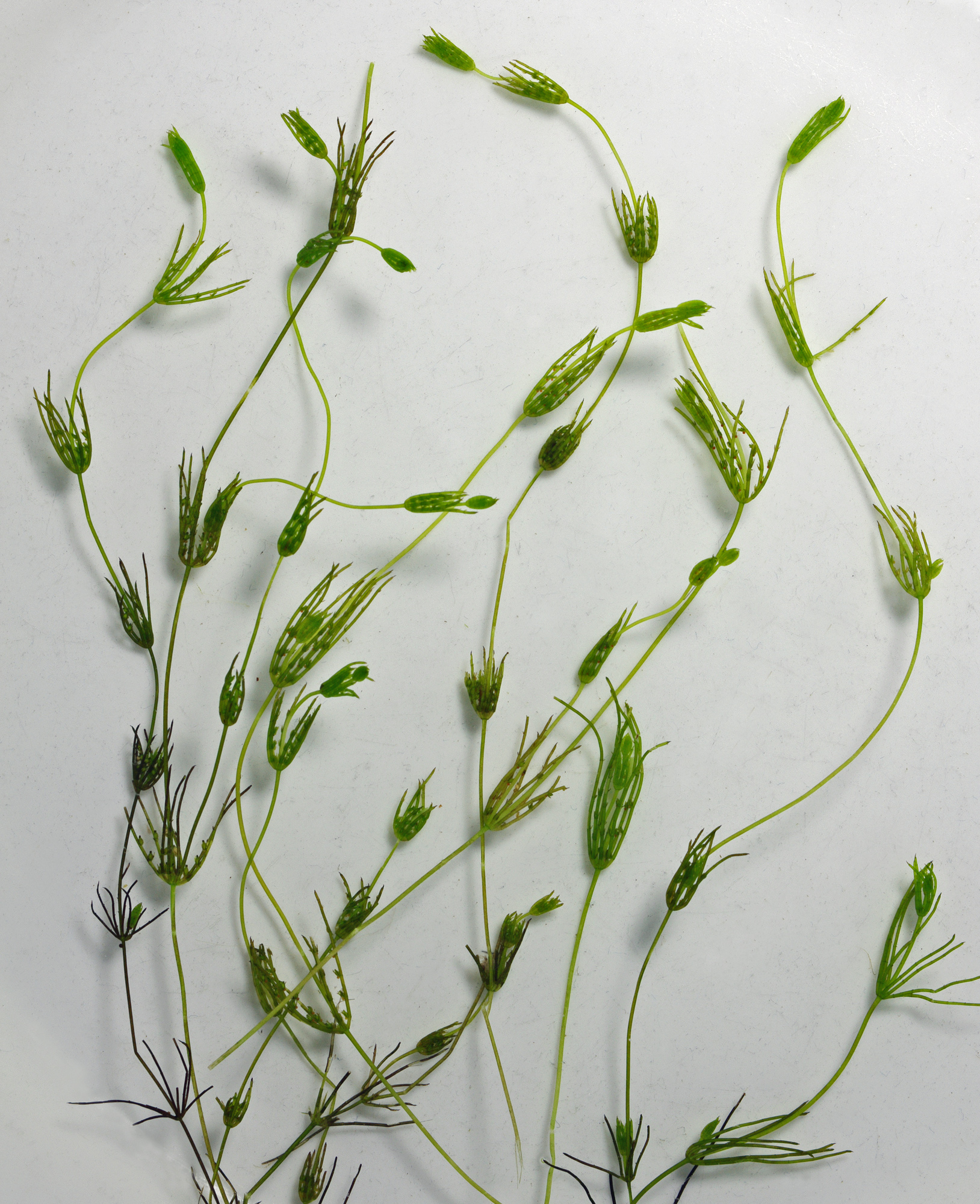 The stoneworts alga Chara globularis (Syn.: Chara fragilis; Characeae).